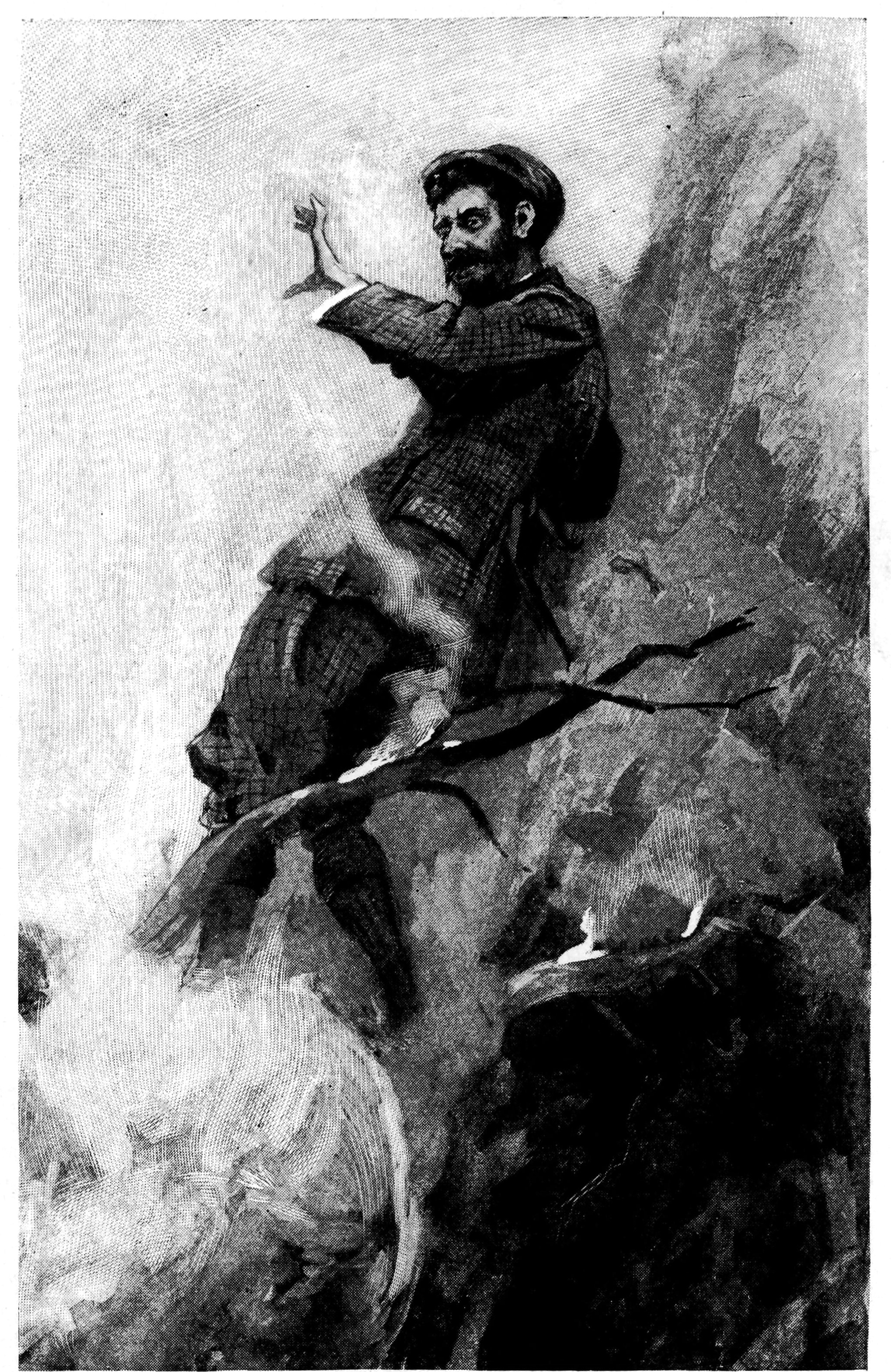 pg 35 of War of the Worlds.